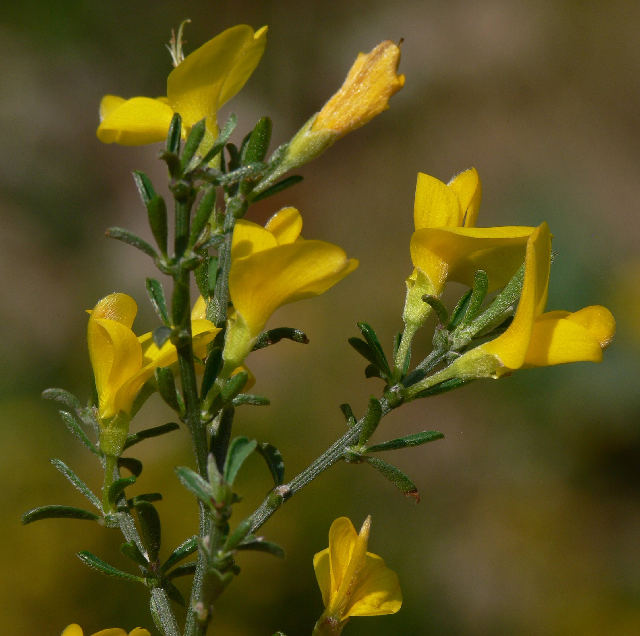 hairy greenweed - Genista pilosa